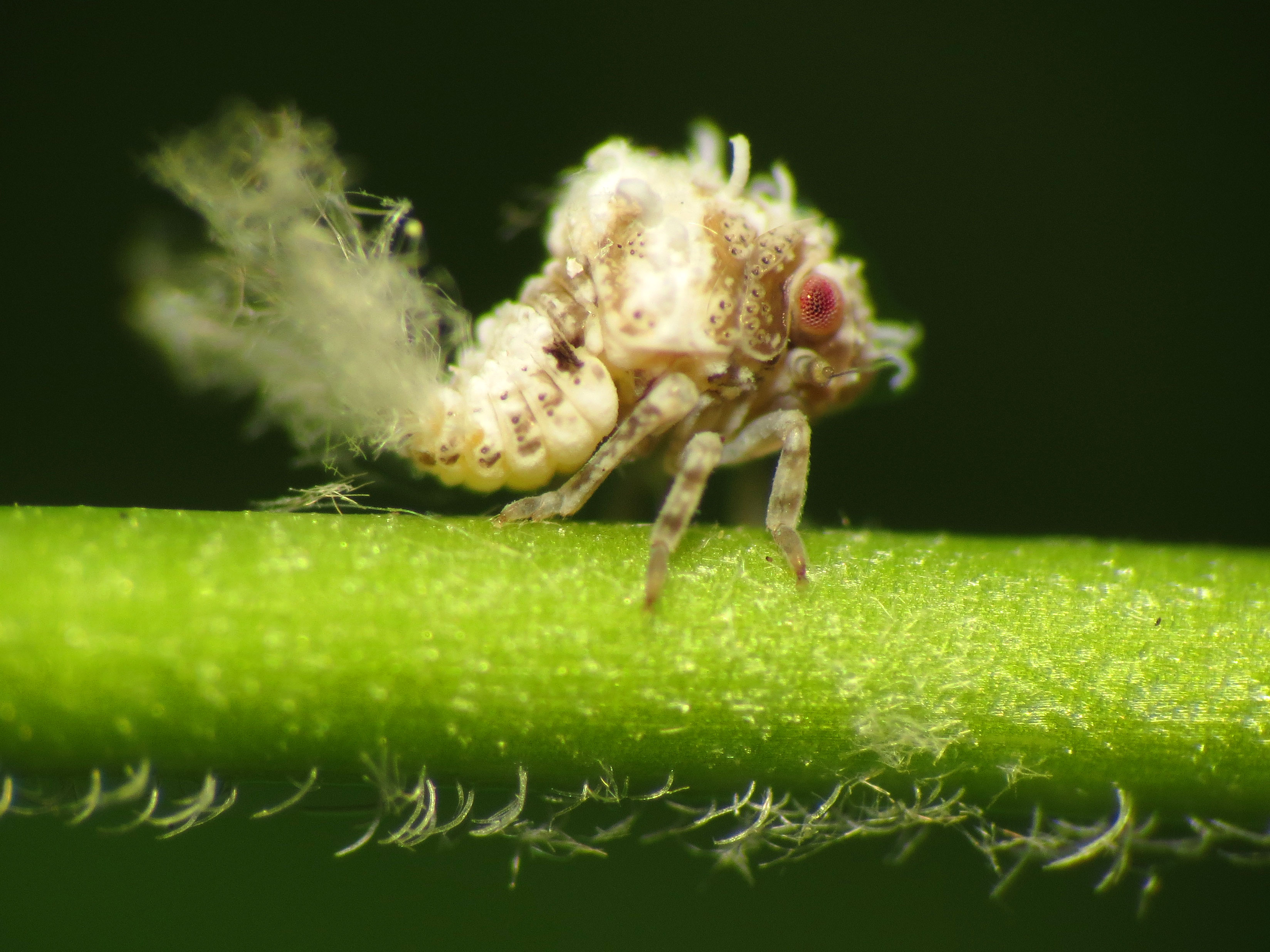 Acanalonia sp., Mount Pleasant, Washington, DC, USA.